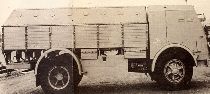 Italian WWII armoured personnel carrier